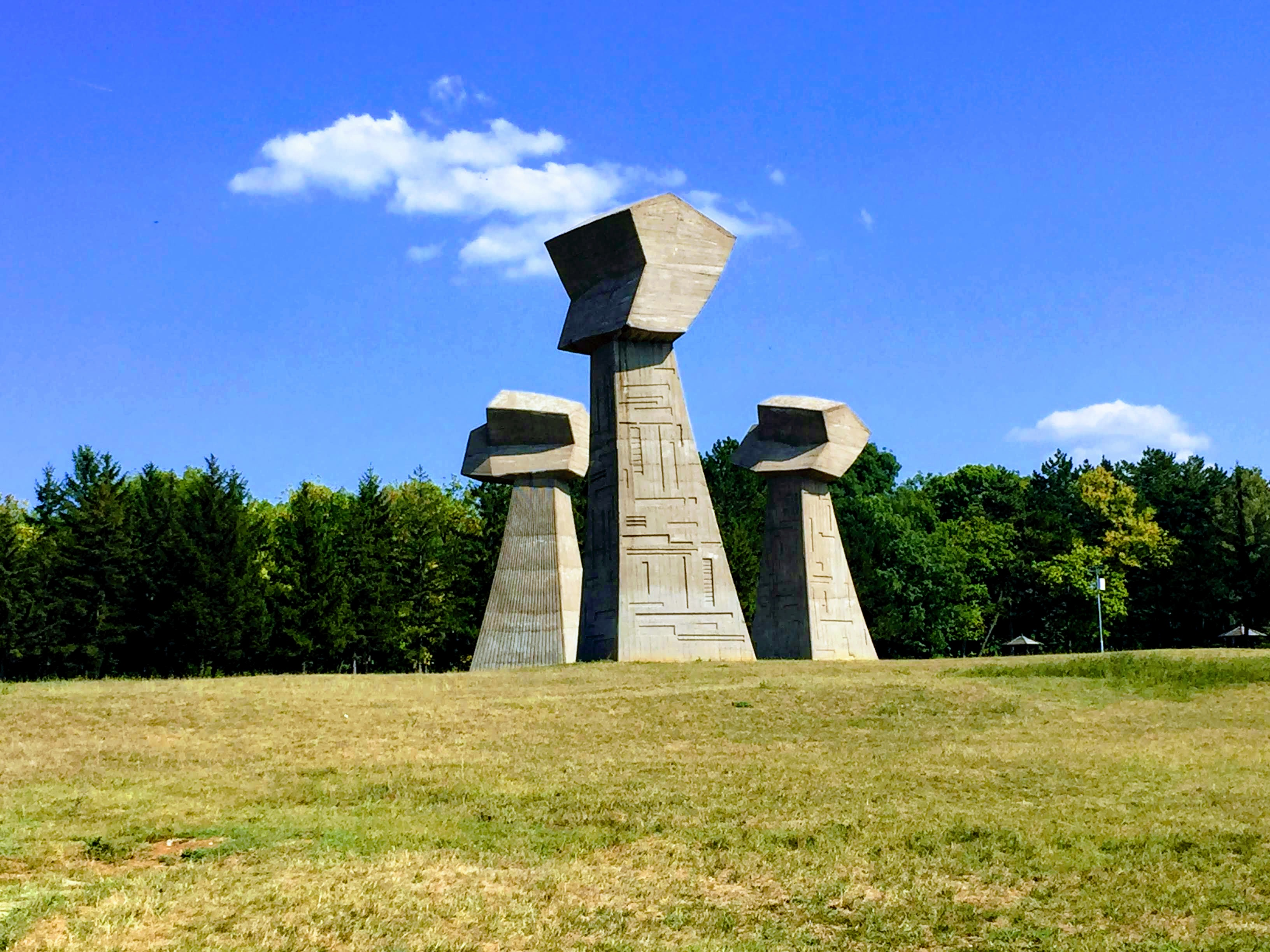 Bubanj Memorial Park, Niš, Serbia